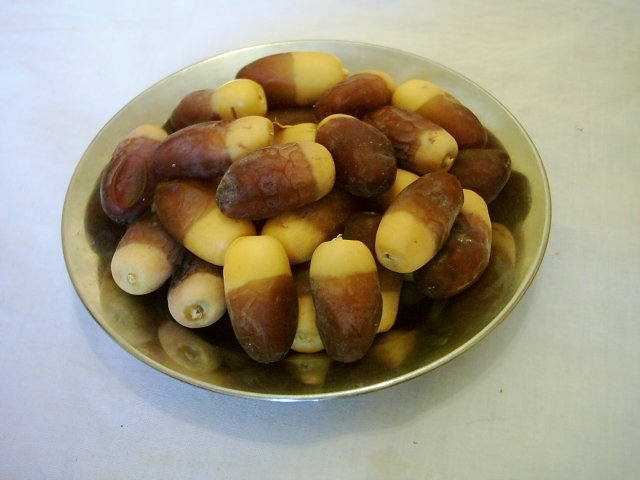 El Hmira, type of dates in Saoura Region (Algeria)